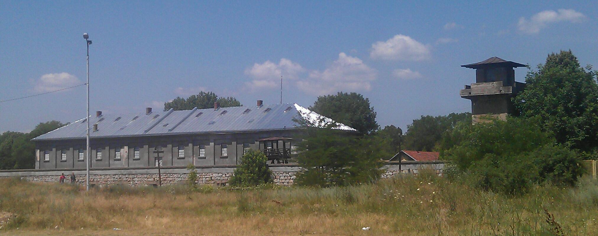 Concentracion camp Nis museum